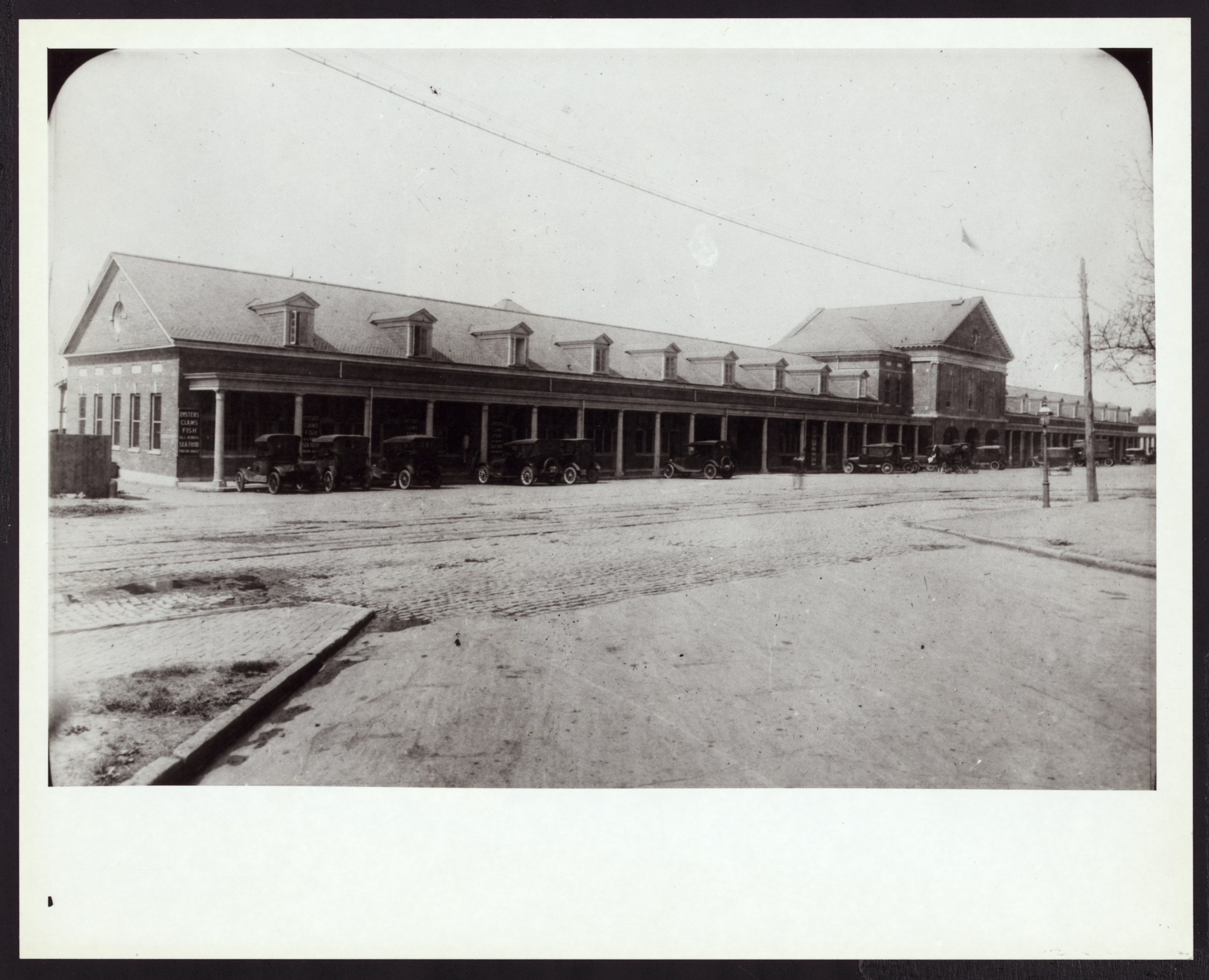 Title: Municipal Fish Market Abstract/medium: 1 photographic print.